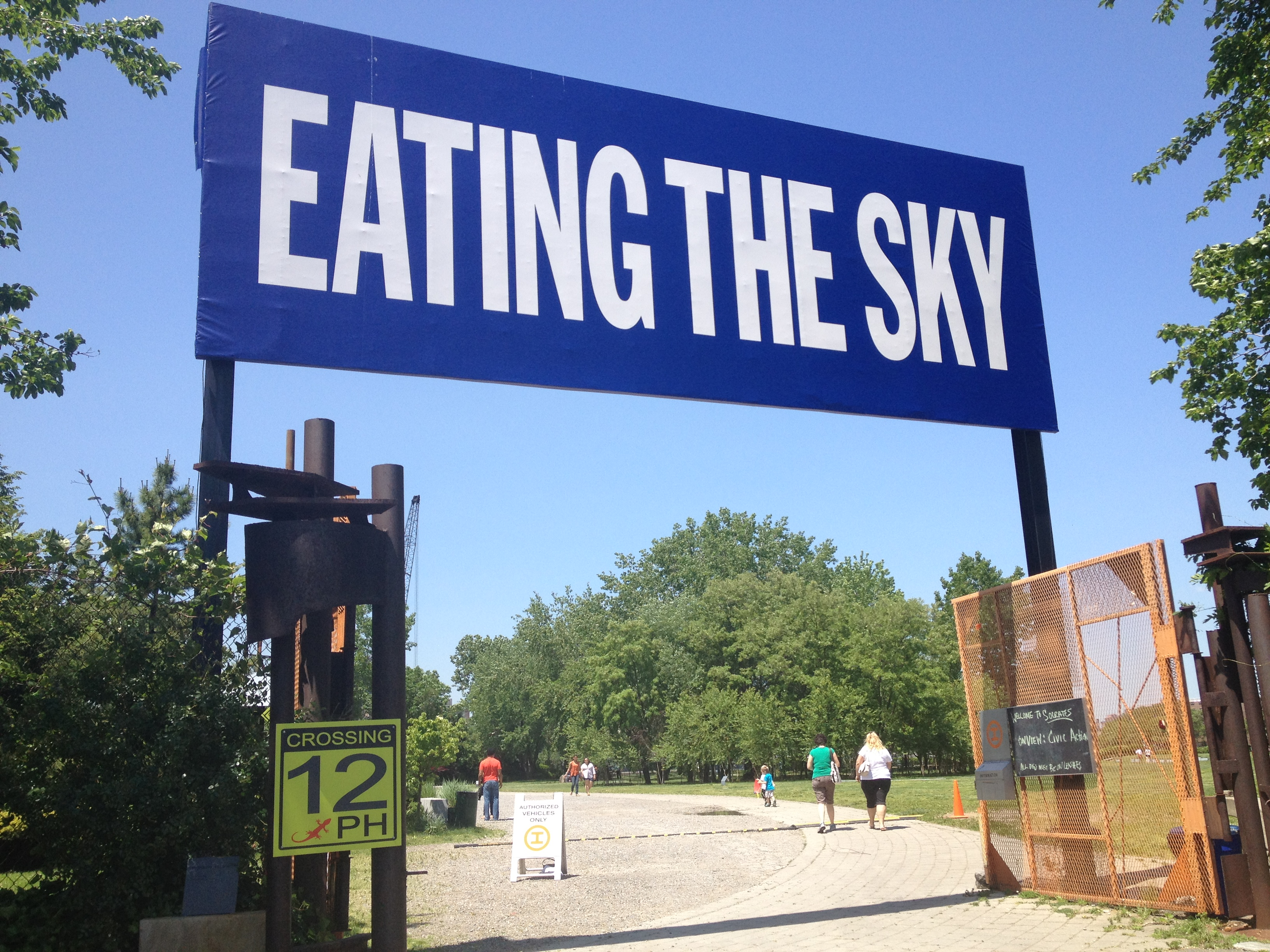 Socrates Sculpture Park Entrance with banner. John Giorno's "EATING THE SKY"